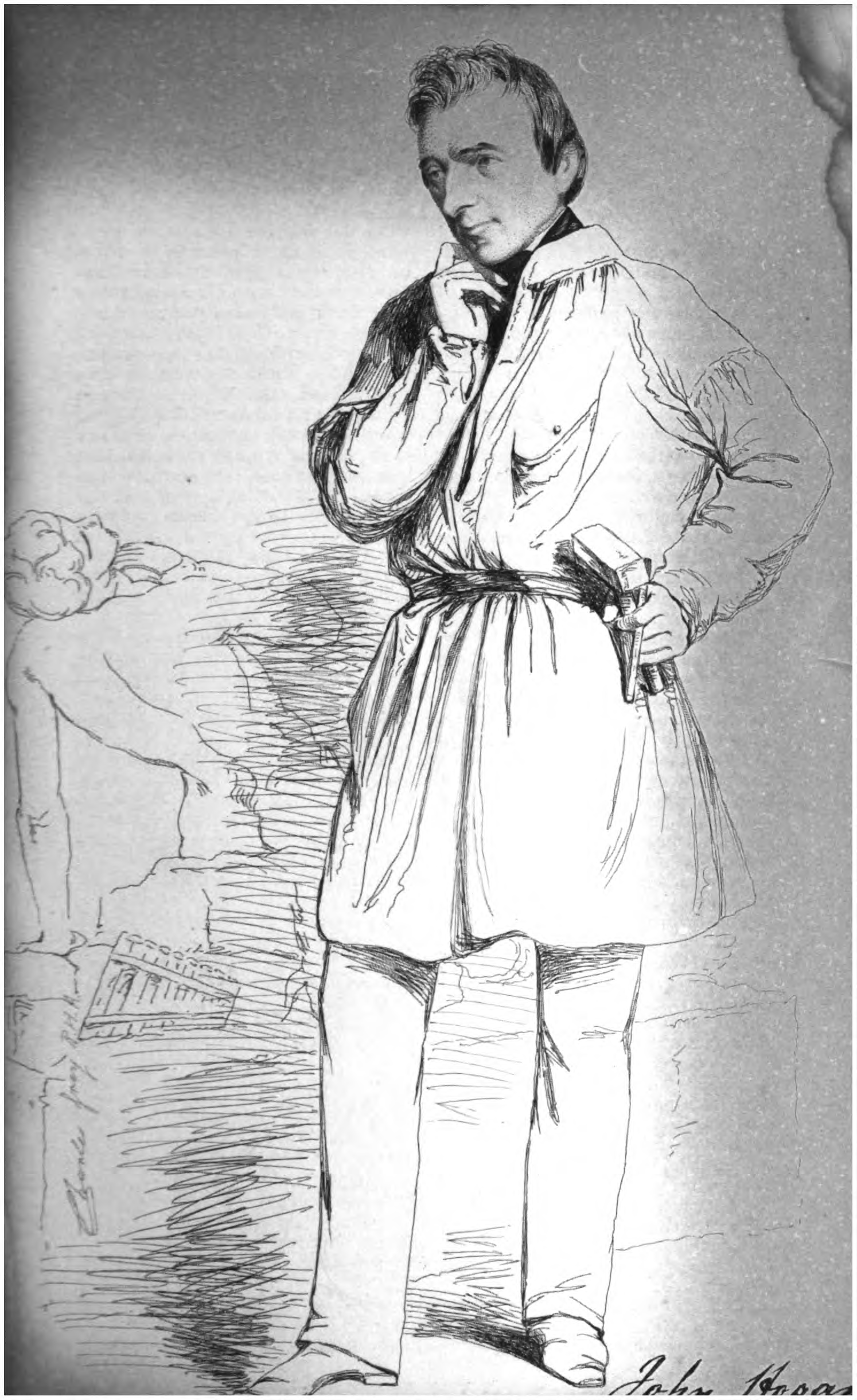 Scan of a drawing depicting the Irish sculptor John Hogan with his sculpture The Drunken Faun in background, published in the Dublin University Magazine, January 1850, between the pages 72 and 73.